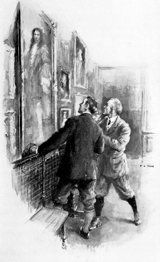 Illustration from 1913 book Witching Hill, featuring a scene with Gillon, Delavoye, and the painting of Lord Mulcaster from the included short story "A Vicious Circle"